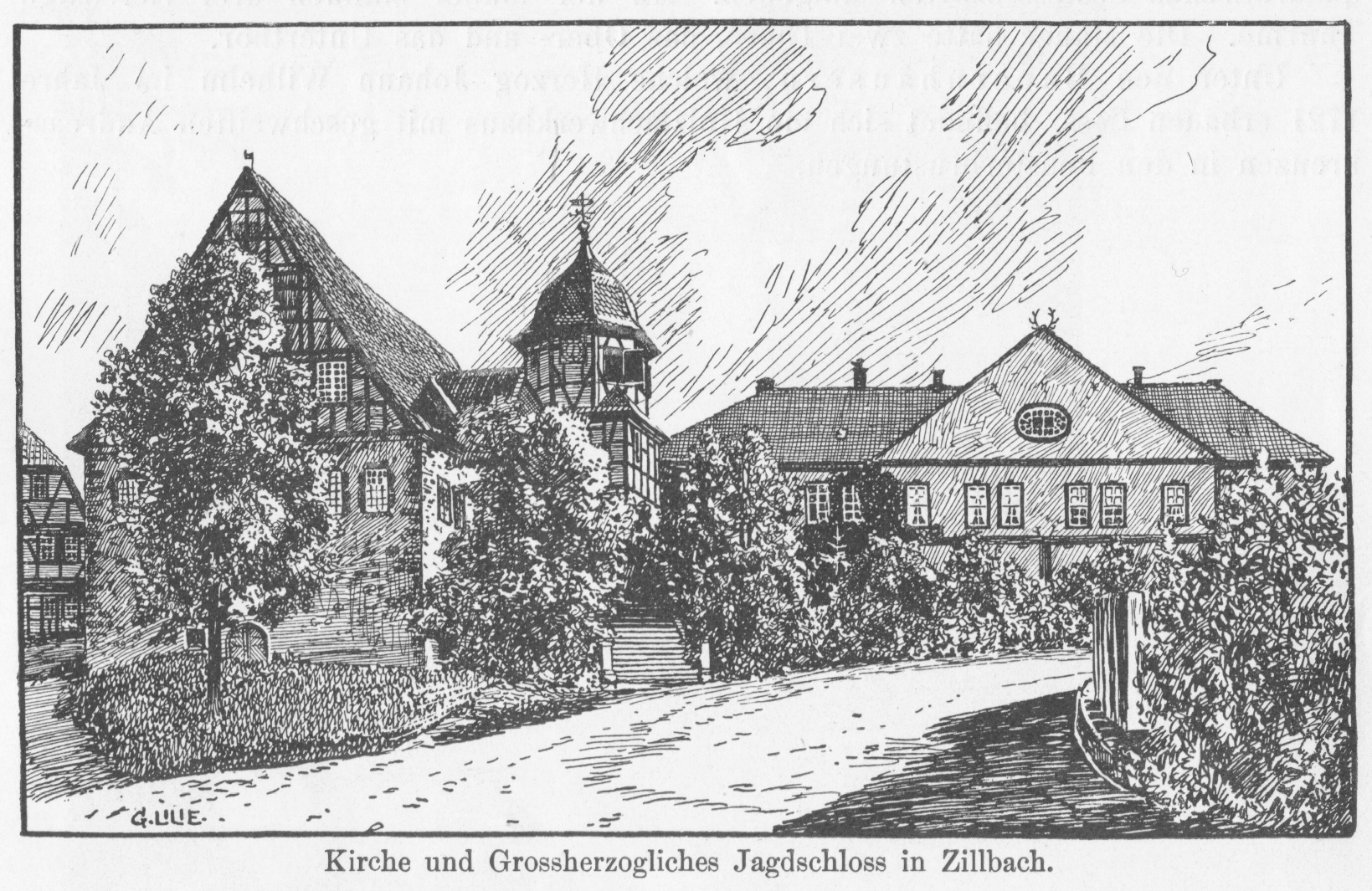 A view of the lodge Zillbach.